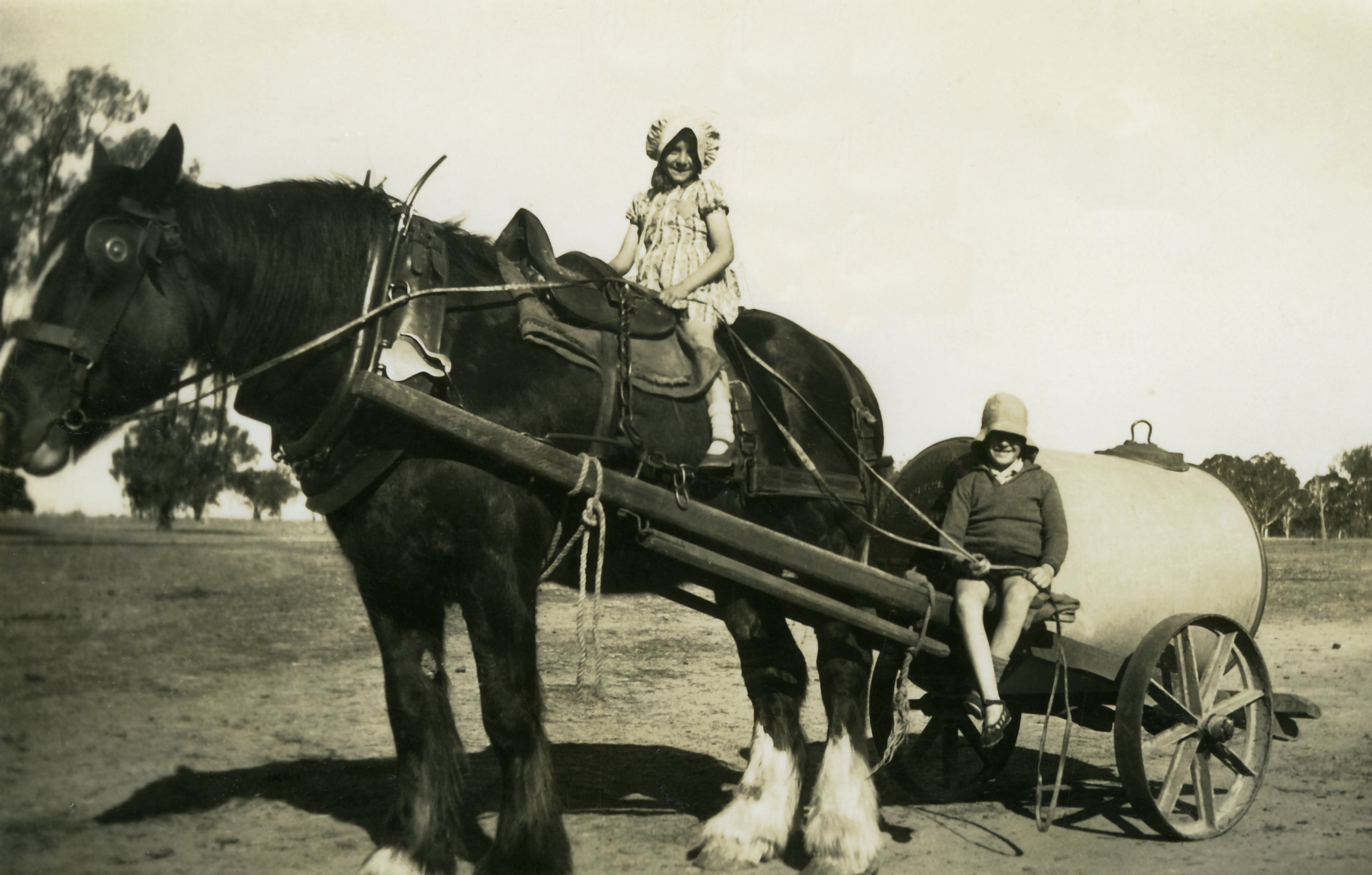 A Furphy water cart hitched to an Australian Draught Horse. A small girl, Jill Mary Ellis, is riding on the horse's back holding the reins, and her twin brother, Barrie Cyril Ellis, is resting on the left shaft also holding the reins. Photo was captured at "Cropwell", a few miles from Deniliquin, New South Wales, Australia.